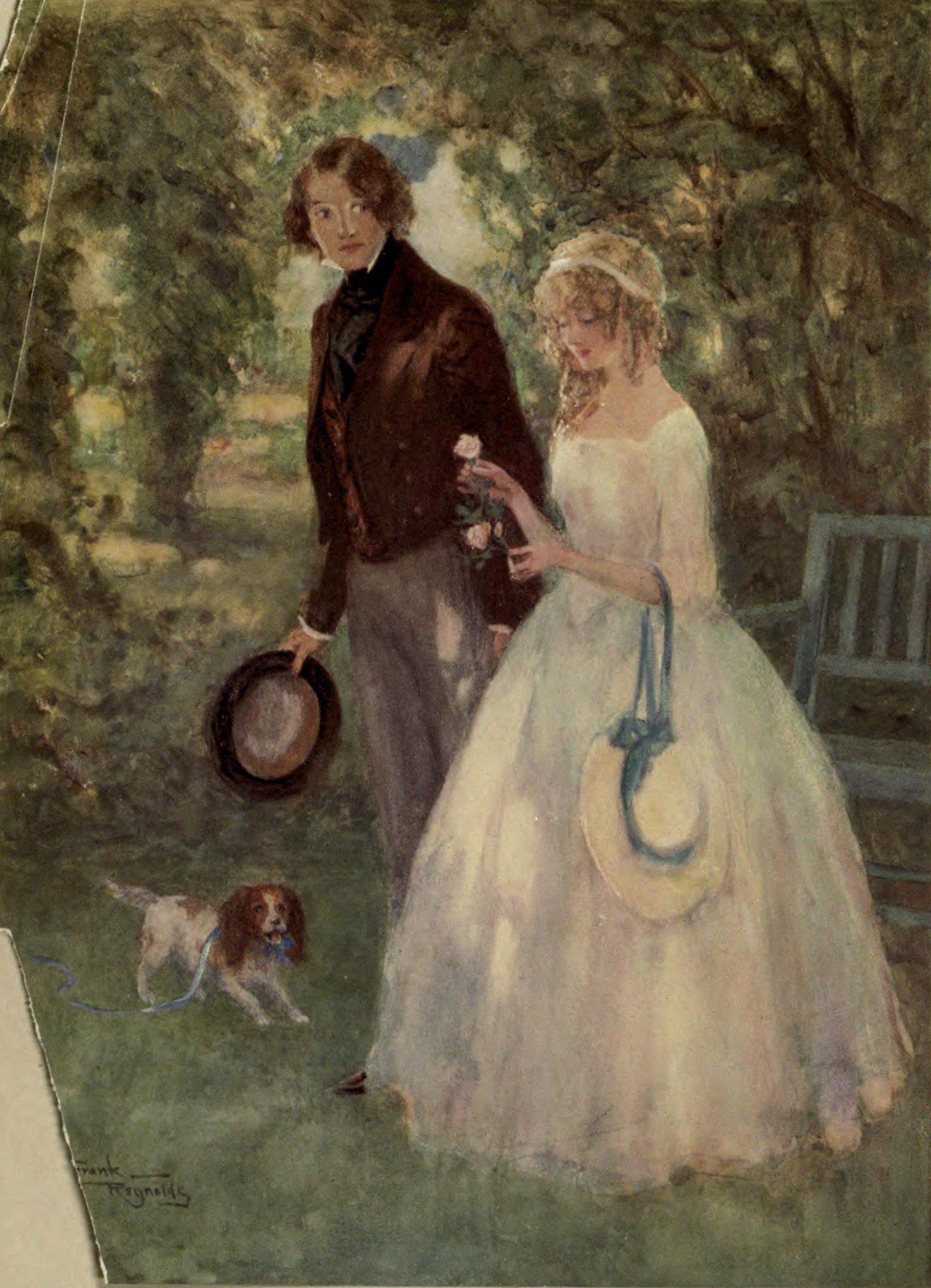 Dora Spenlow and David, characters in Charles Dickens' David Copperfield.